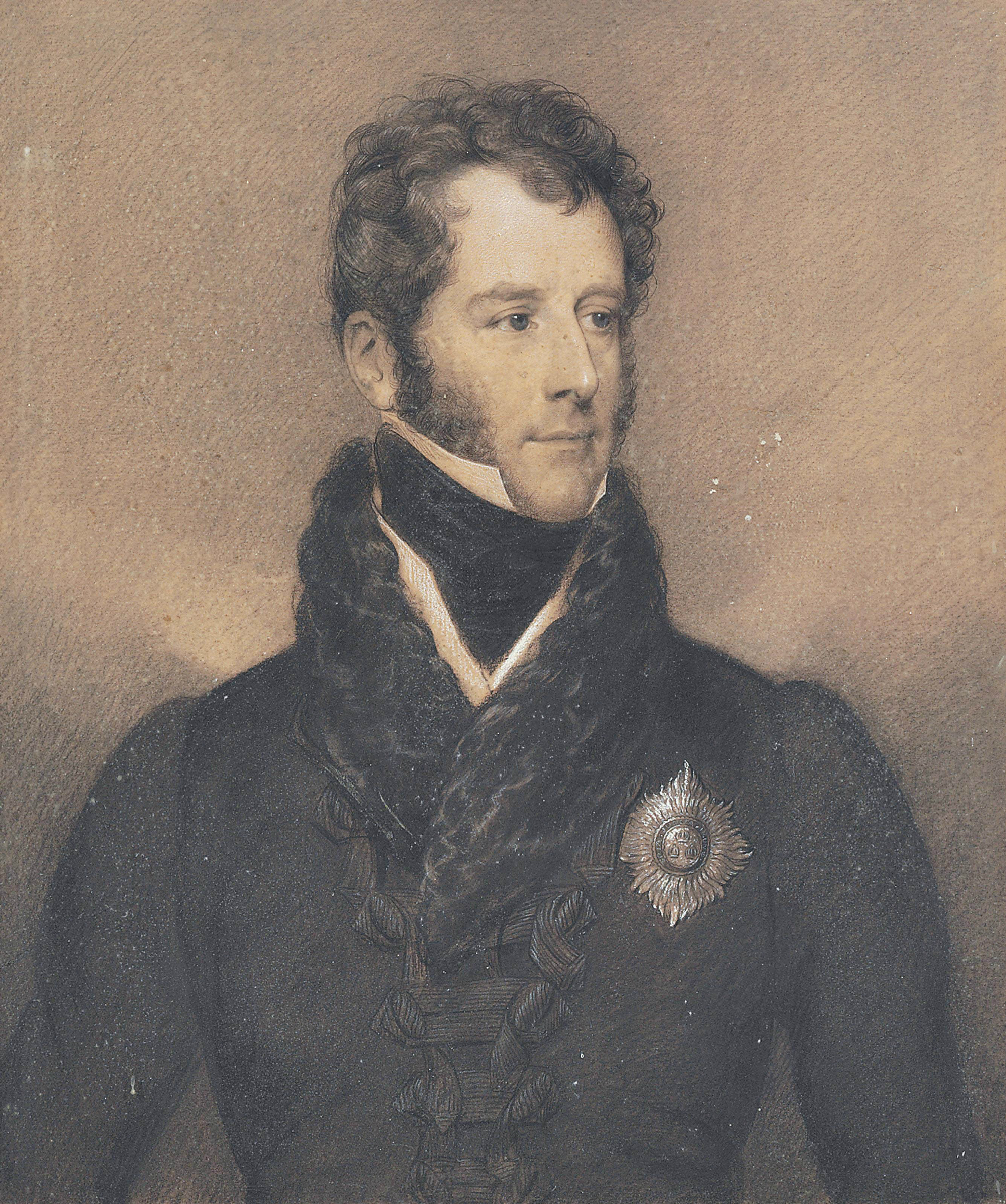 Portrait of Charles Bagot (1781-1843) wearing the Order of Bath breast Star